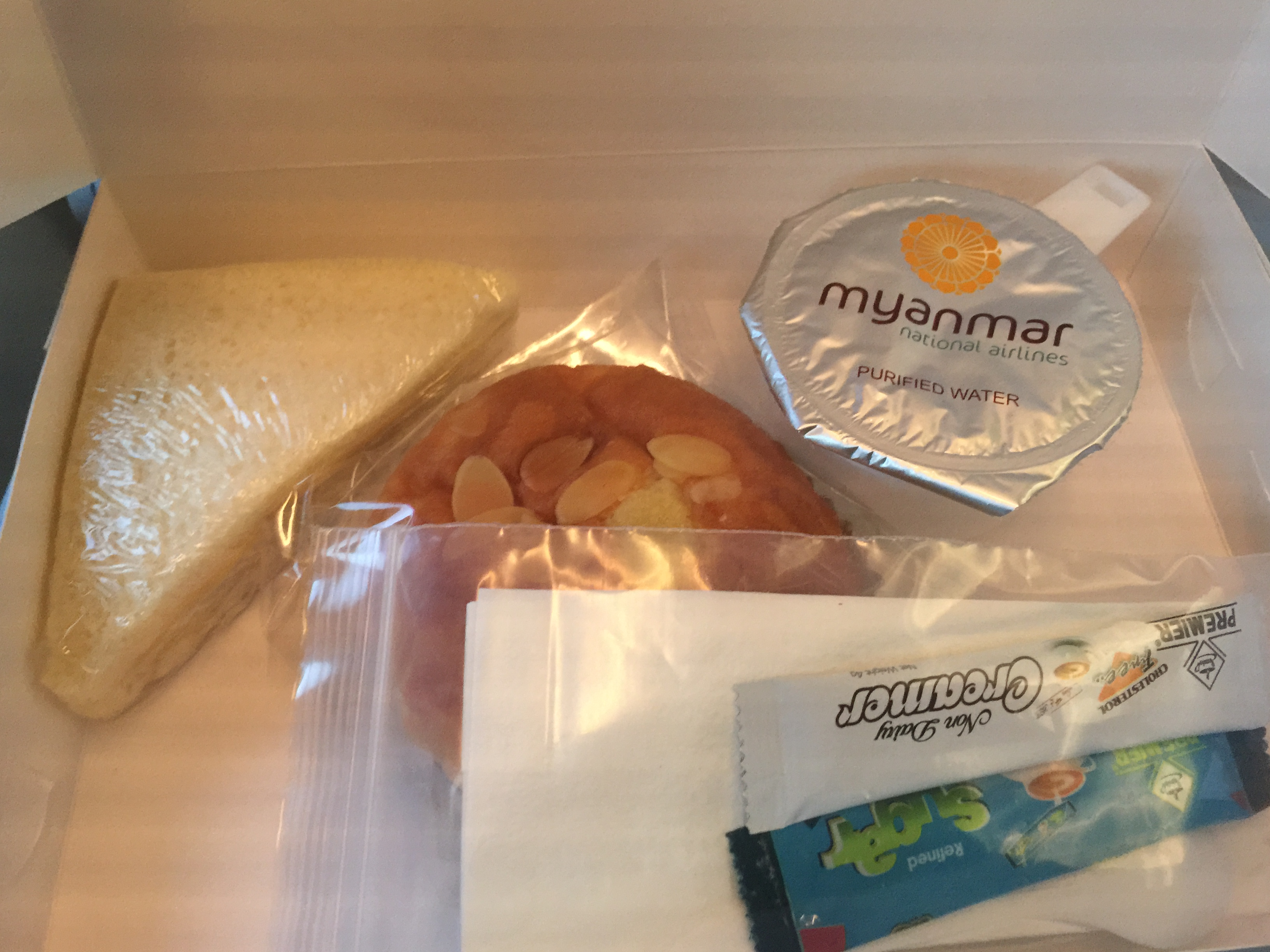 Inflight meal on domestic routes